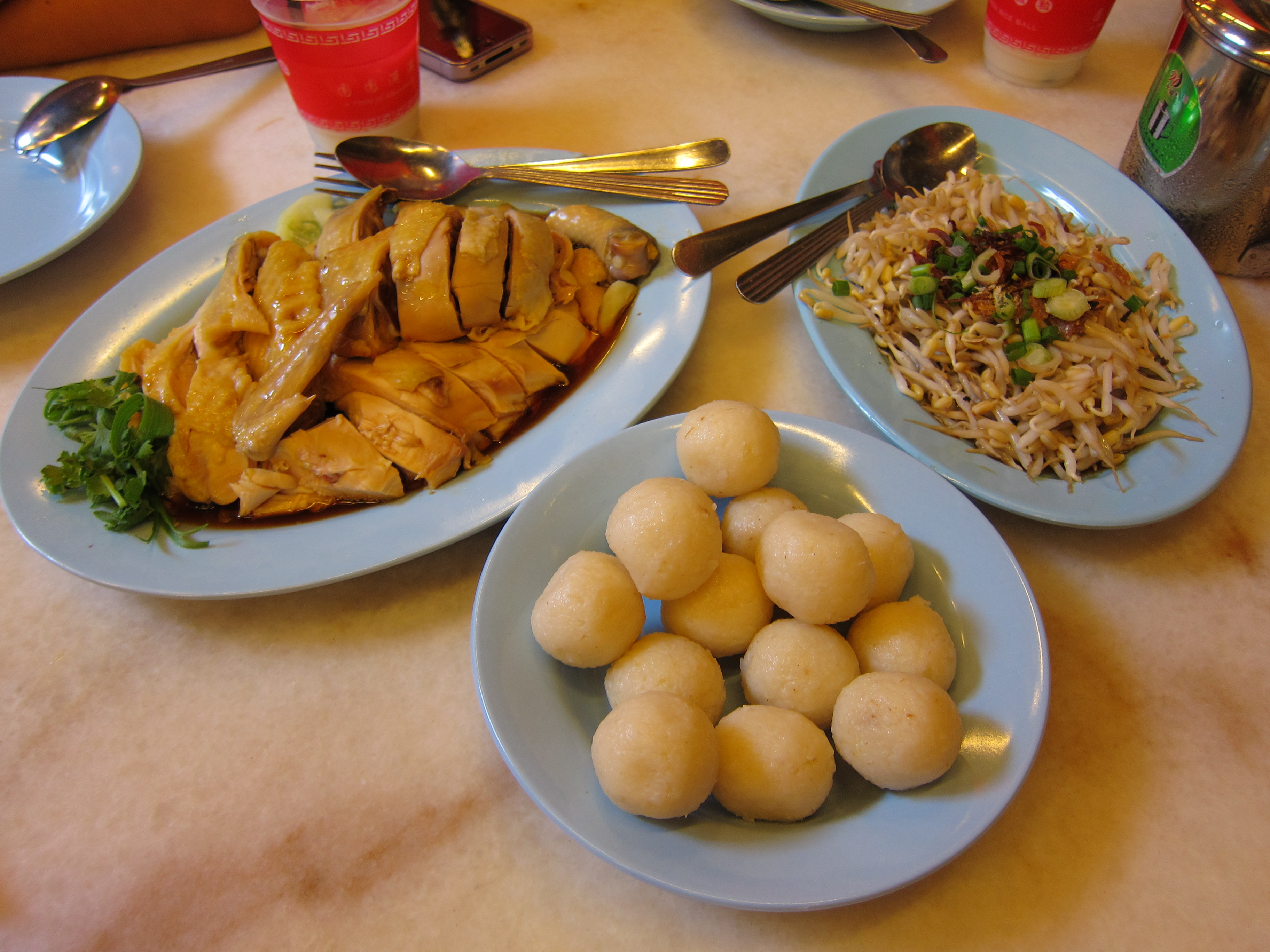 Chicken rice balls in Melaka